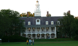 Commons houses the Dining Hall at Bennington College.